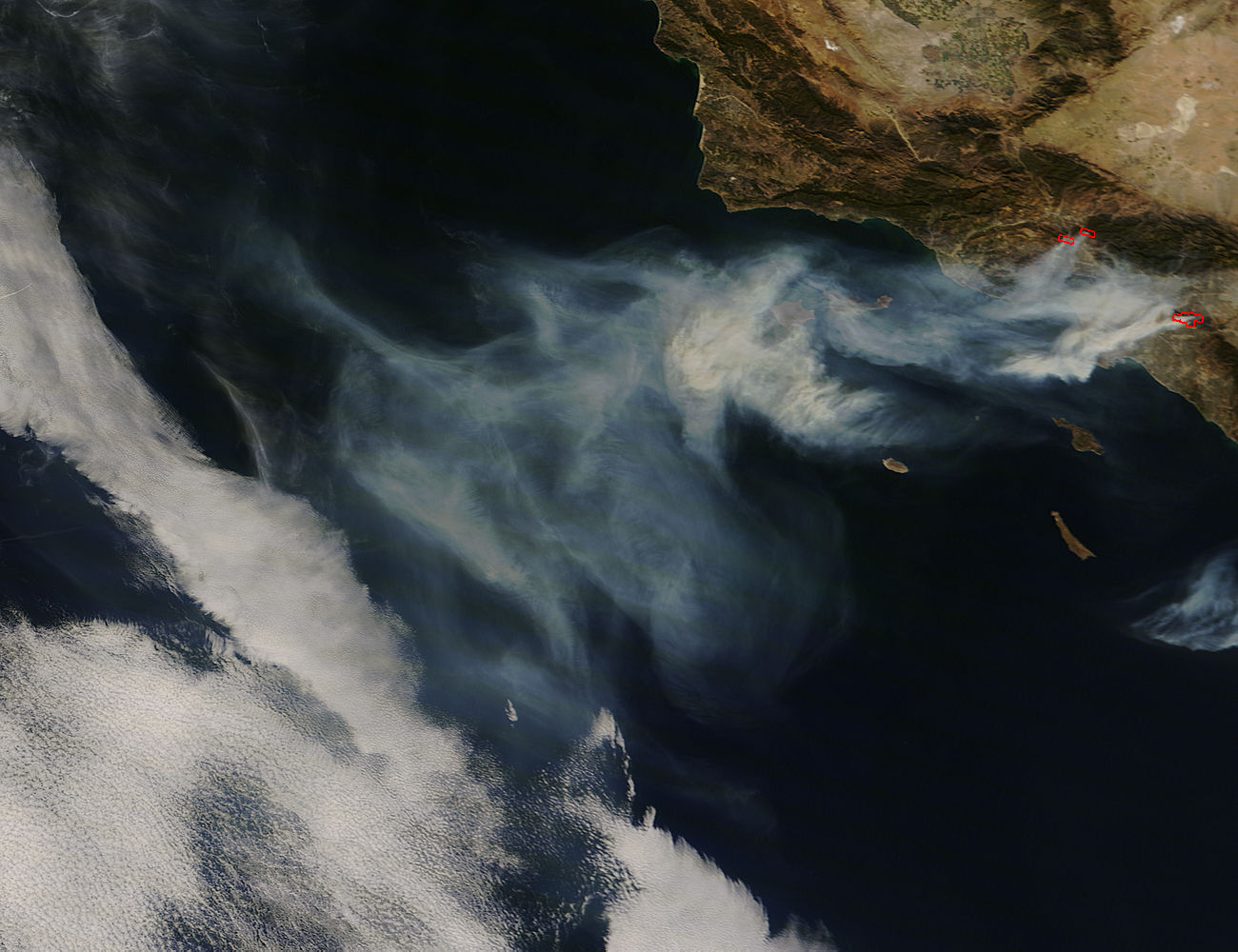 Satellite image of the November 2008 California wildfires.